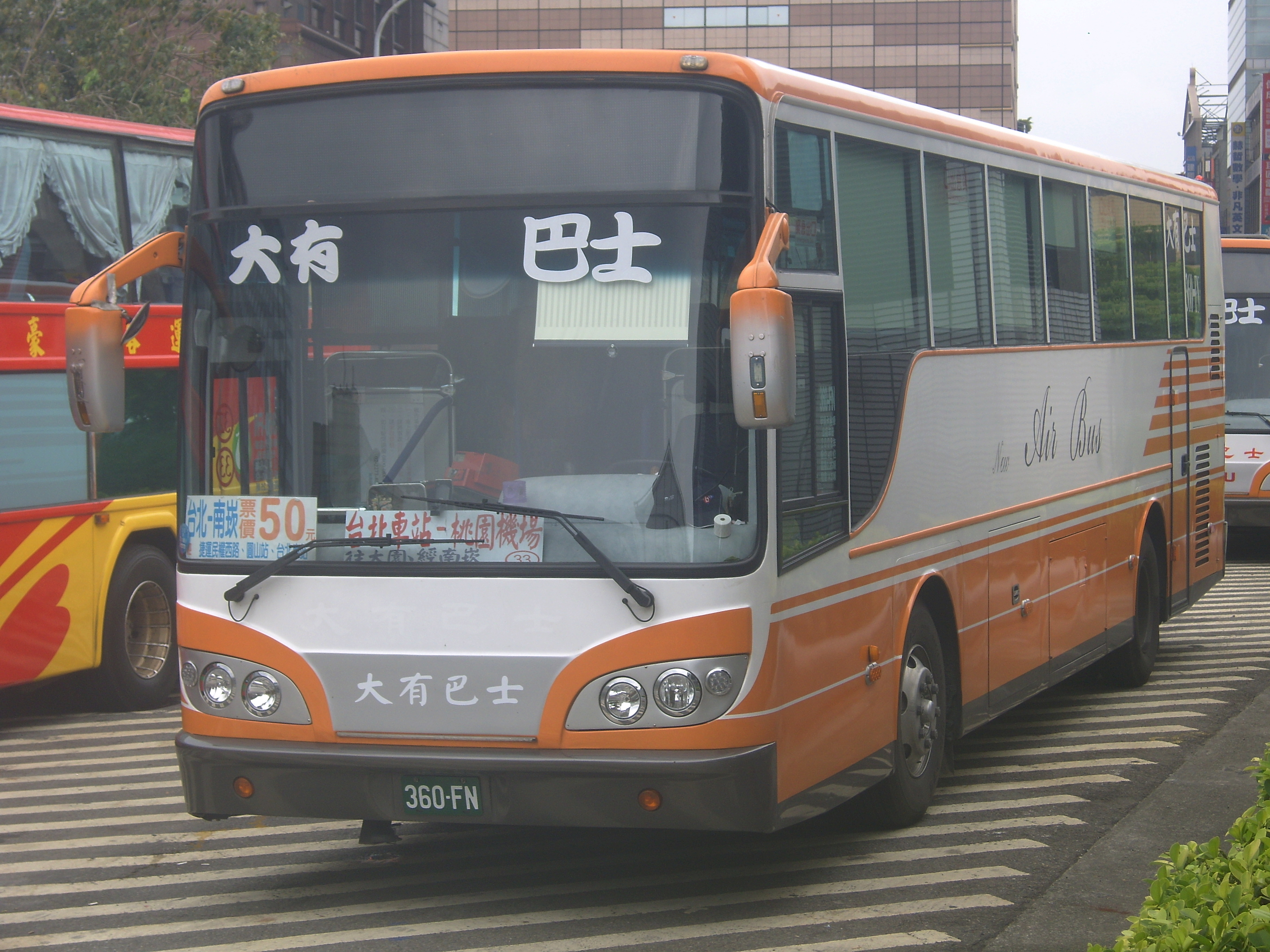 中文（台灣）: Airbus Corp. - ISUZU LT134PMK.